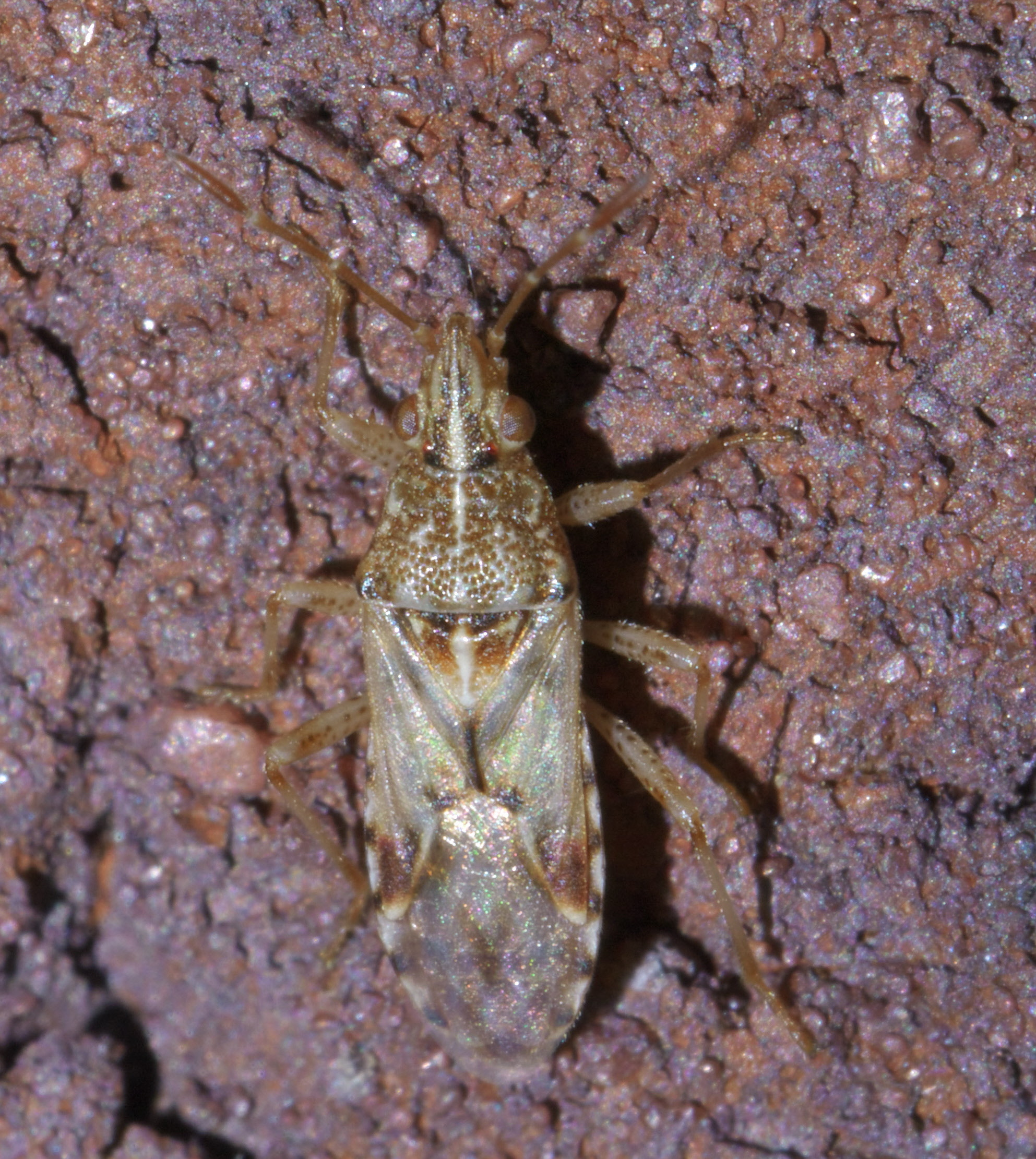 Belonochilus numenius, Sycamore Seed Bug, ID Confidence: 98